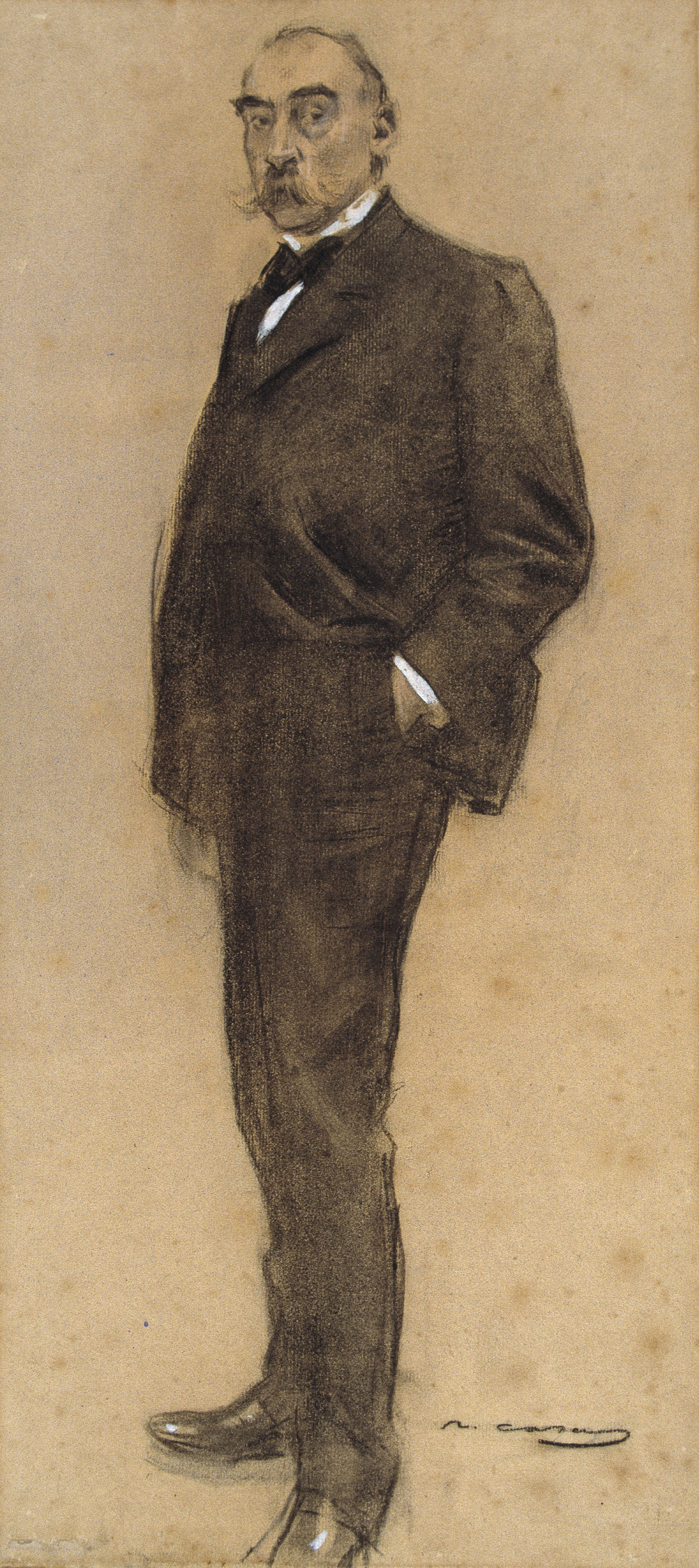 Portrait by Ramon Casas conserved at MNAC in Barcelona. Imagen 013